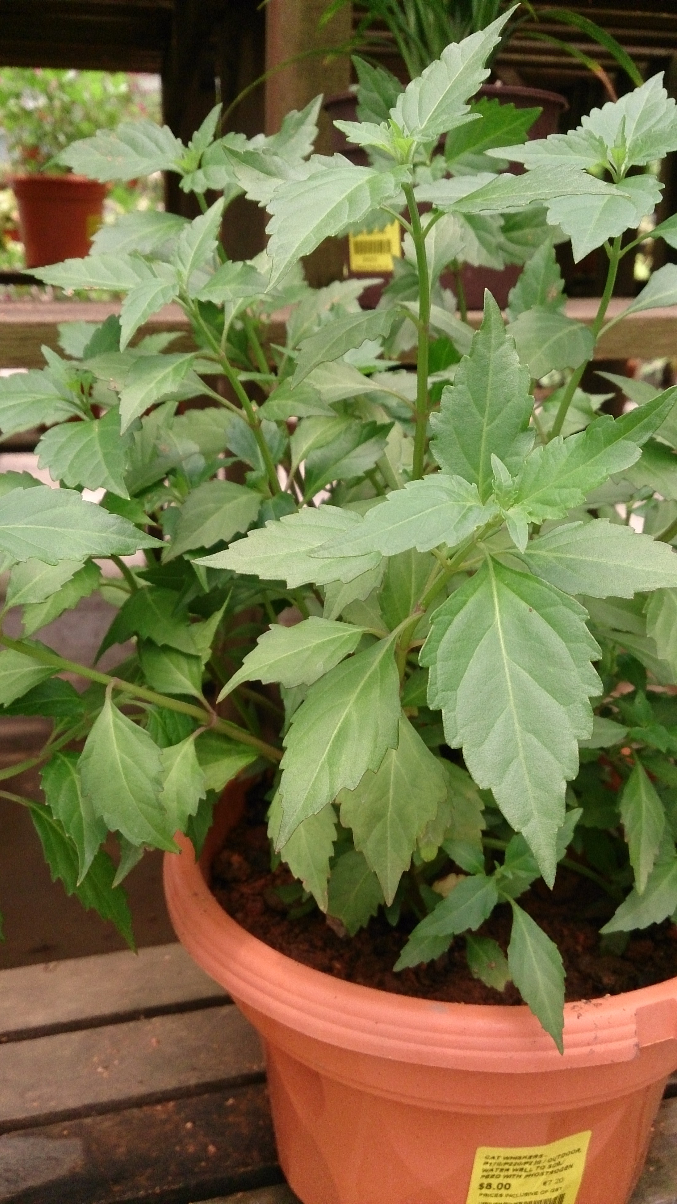 Orthosiphon aristatus. Common name: Cat's Whiskers.